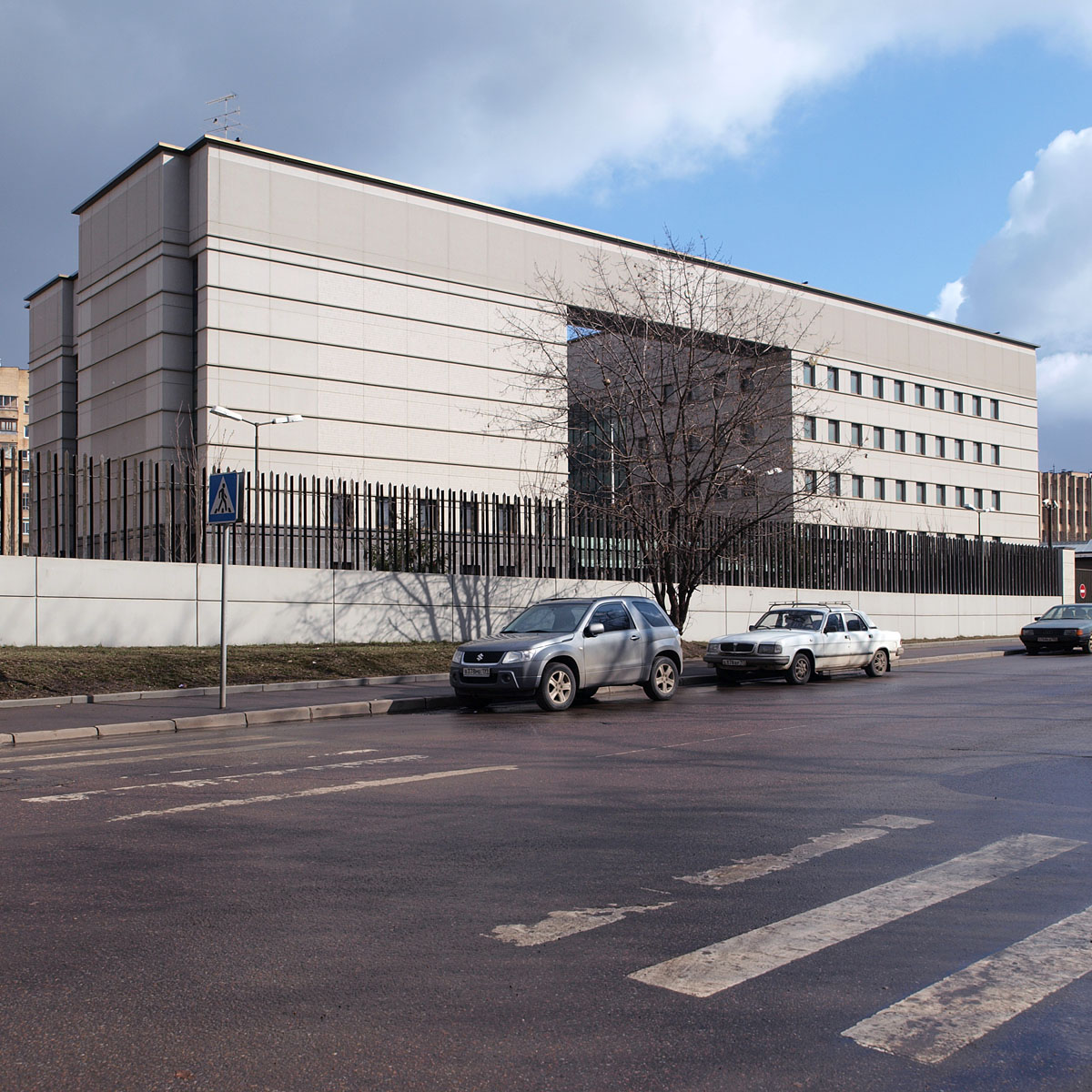 Japanese Embassy, Moscow, Russia